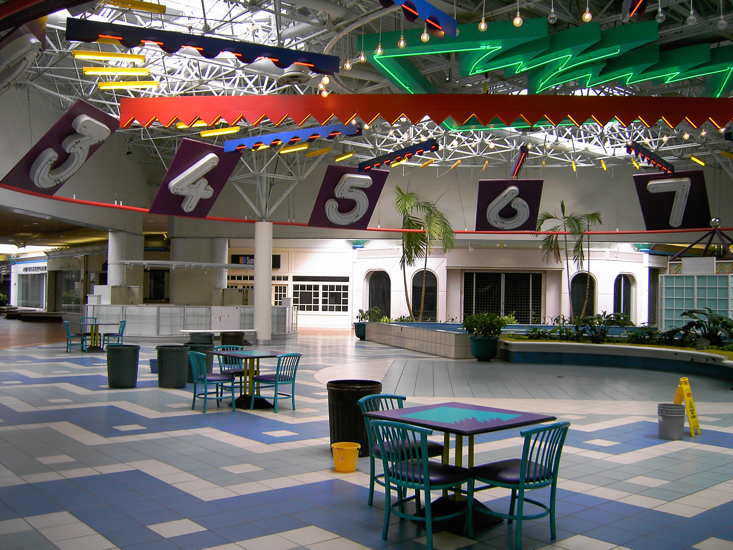 Summary A photo that I took of the interior of Myrtle Square Mall. It may appear on one of my websites, or on a Yahoo! Photos account under the same license as on Wikipedia.